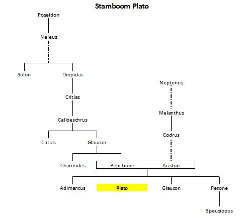 Family tree of Plato, as written in Diogenes Laertius', Life of Plato